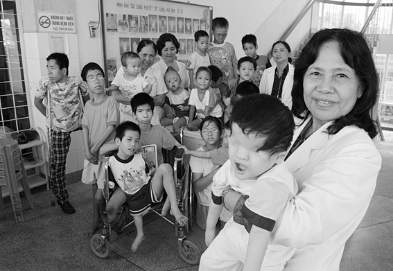 Ho Chi Minh. Professor Nguyen Thi Ngoc Phuong, at Tu Du Obstetrics and Gynecology Hospital is pictured with a group of handicapped children, most of them victims of Agent Orange.